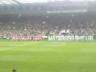 Celtic and Man U lining up before the John Kennedy testimonial match